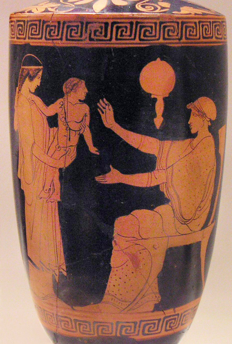 Gynaeceum scene: a slave presents a baby to its mother. Red-figure lekythos, ca. 470-460 BC. From Eretria.